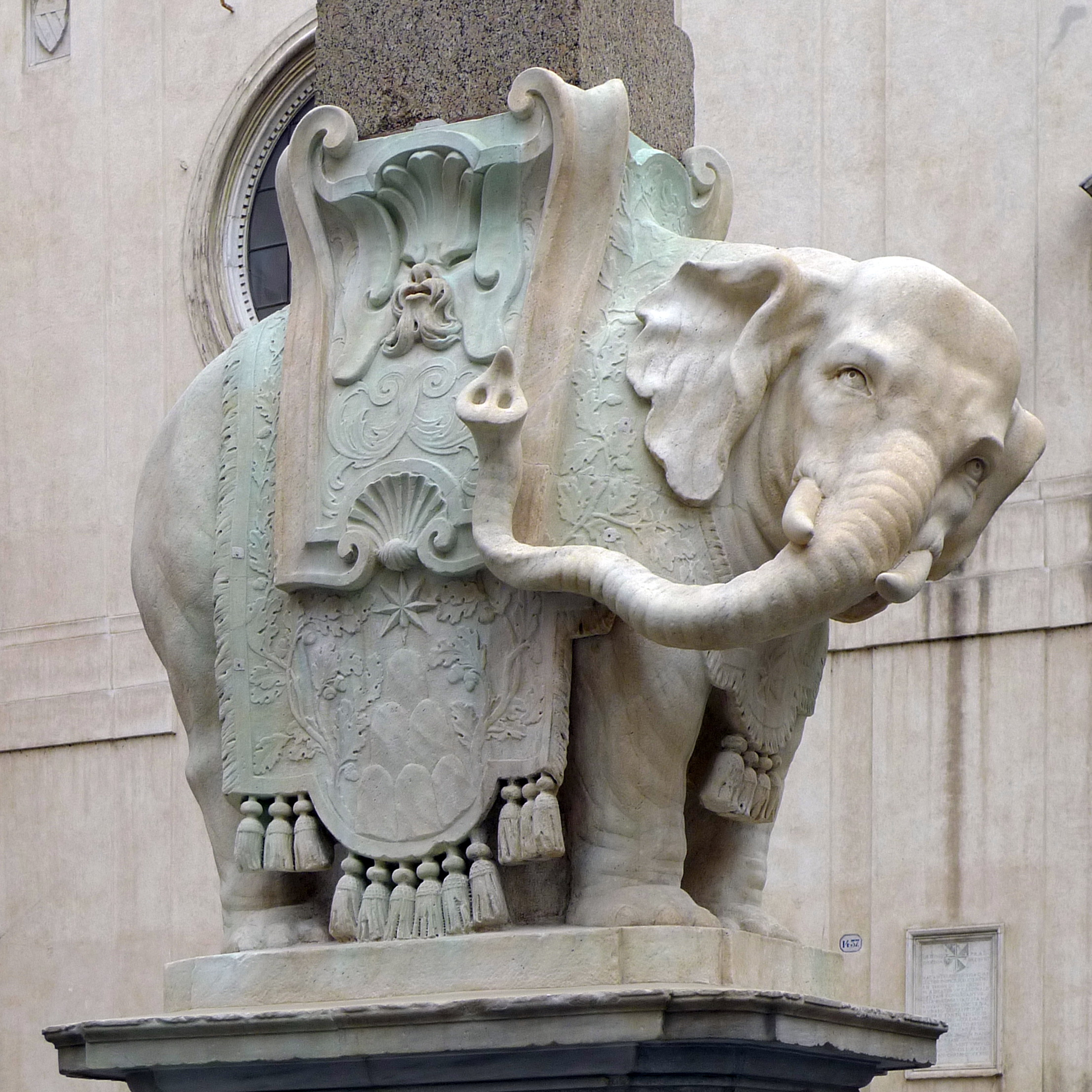 Piazza della Minerva (Rome), Il pulcin della Minerva